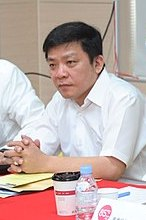 吳政學 (Wu Cheng-Hsueh) on 24 August 2013.